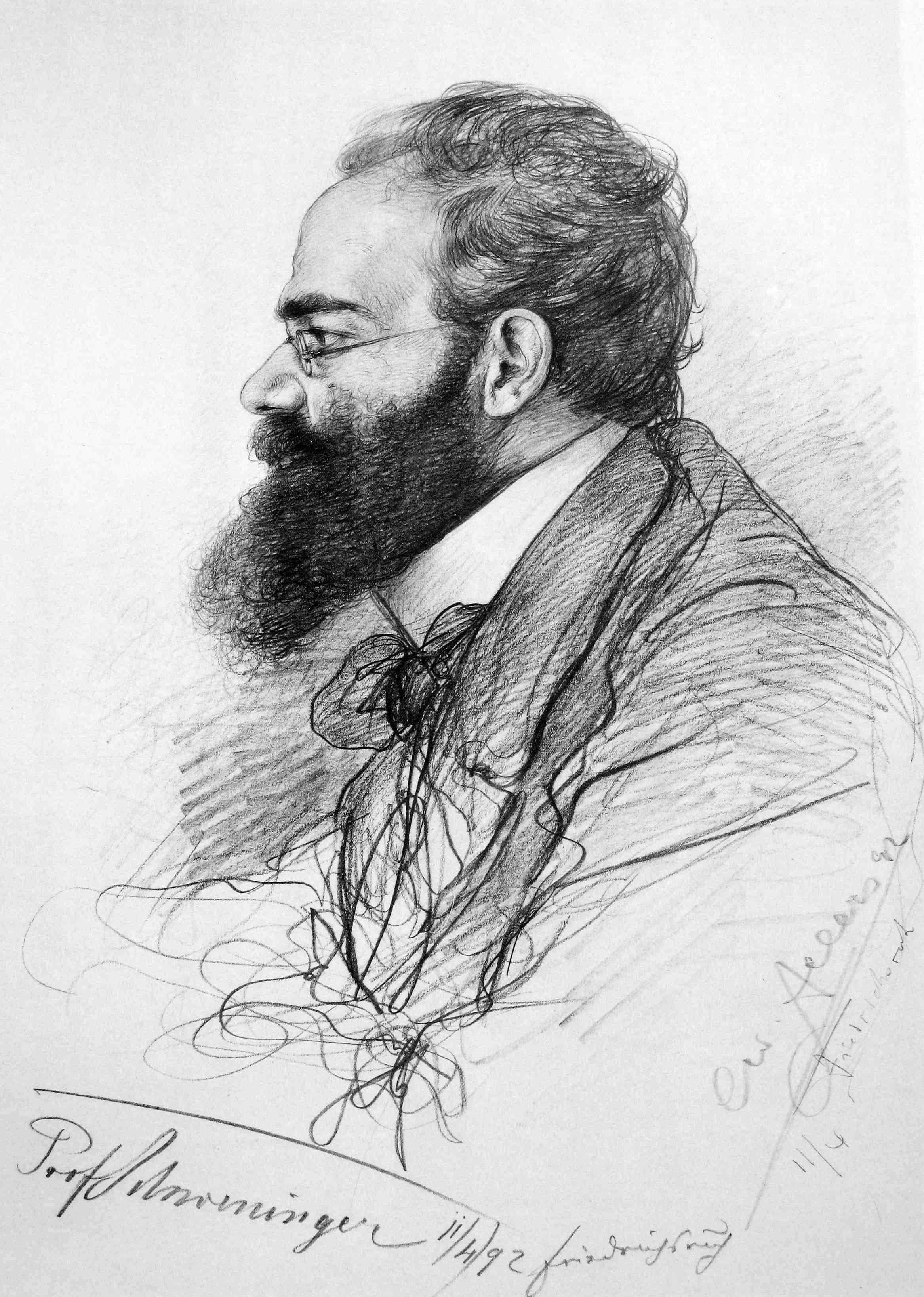 Portrait of Ernst Schweninger